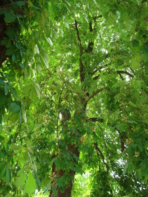 A German tree in rayon Pankow aside the river Panke.